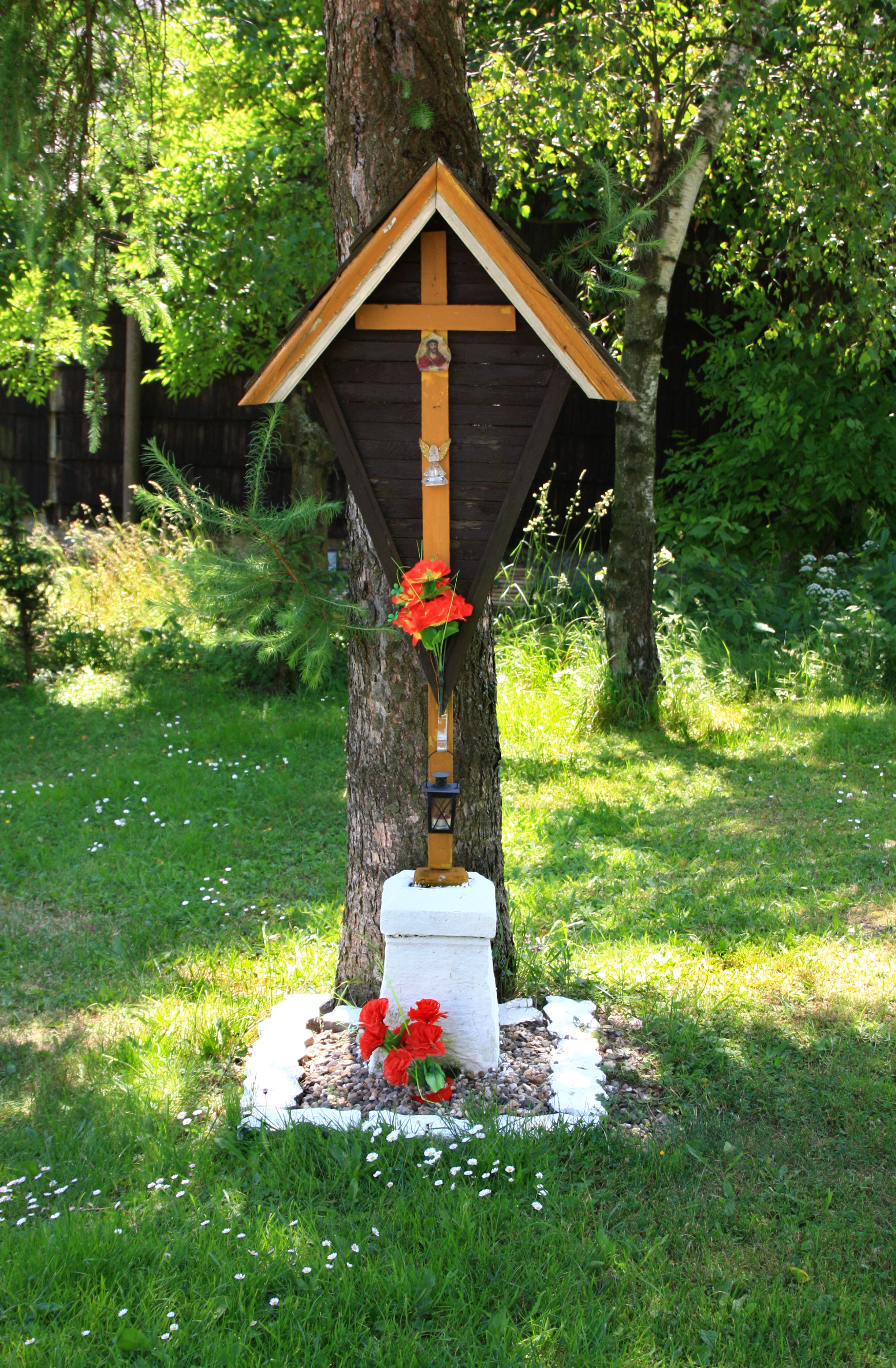 wayside cross in Zákoutí village, part of Blatno, Czech Republic